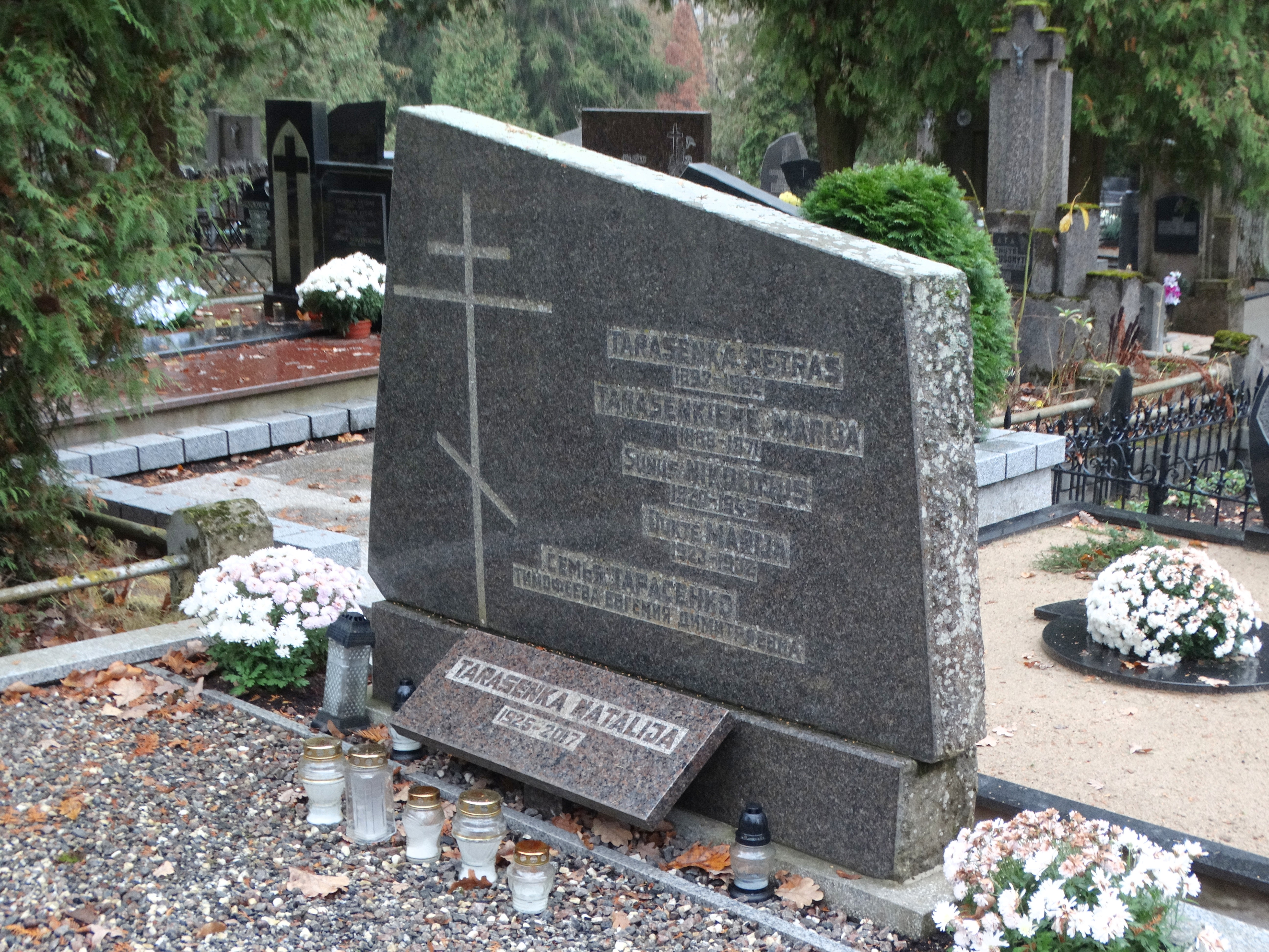 Tomb of Petras Tarasenka, Eiguliai cemetery, Lithuania